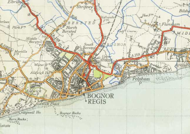 Reproduced from the 1947 OS map